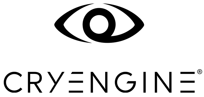 CryEngine Nex-Gen(4th Generation)